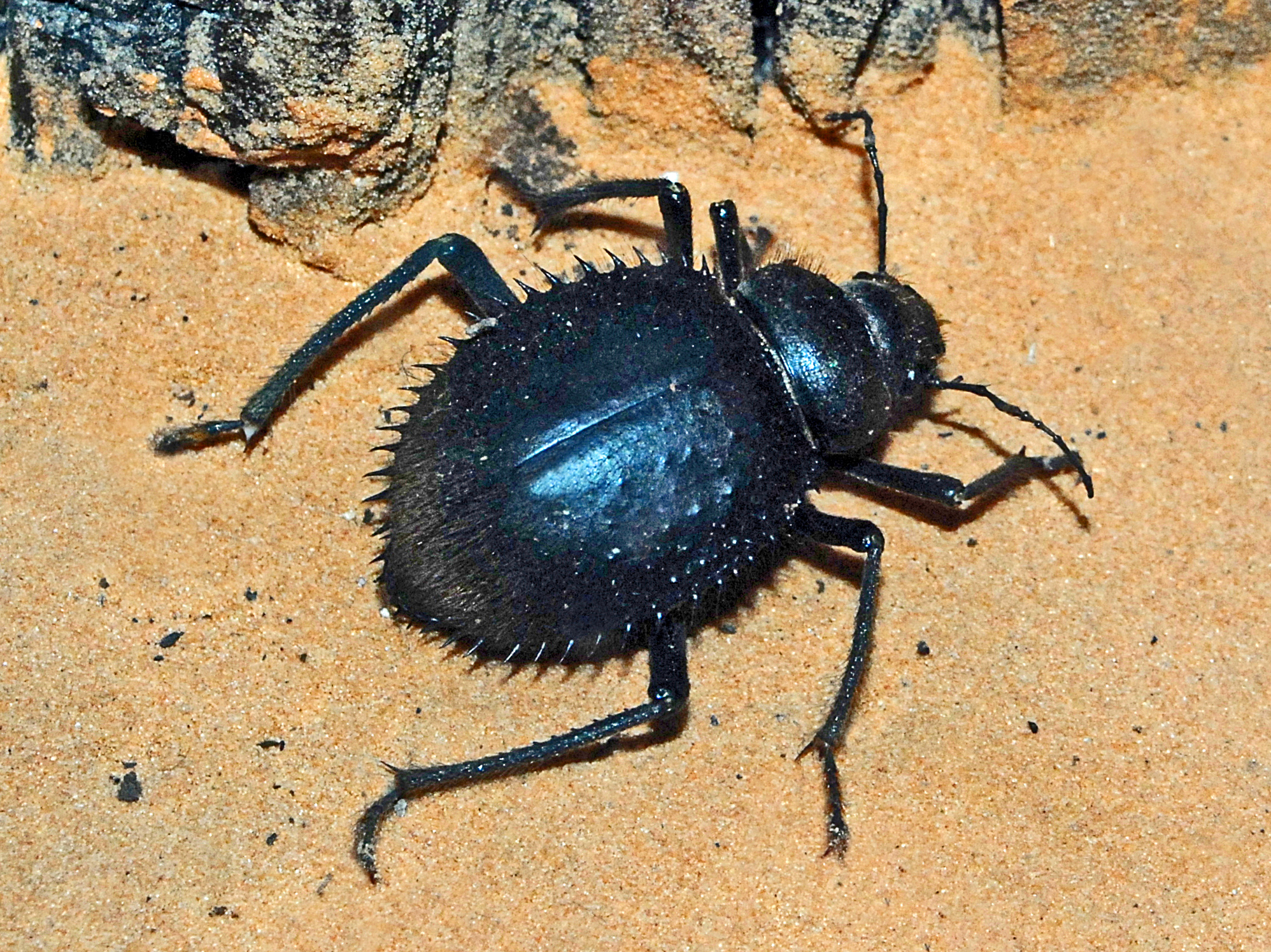 Pimelia angulata.